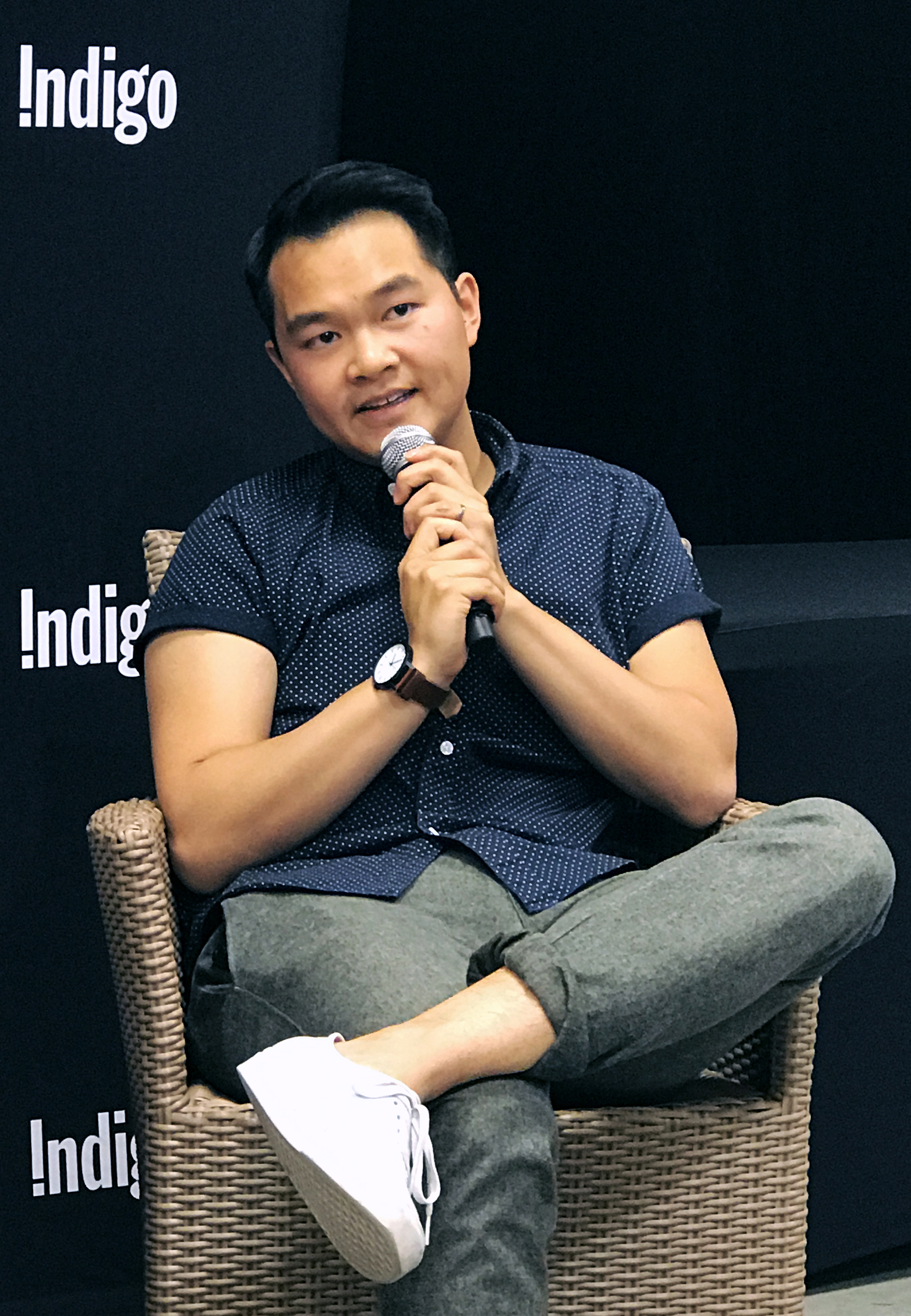 Jonny Sun discussing his book Everyone's a Aliebn When Ur a Aliebn Too at Indigo Chapters in Toronto